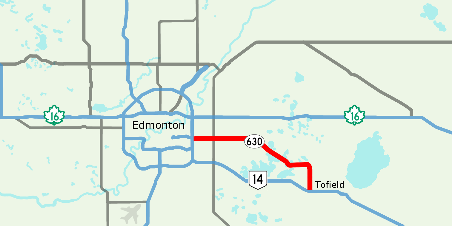 Alberta Highway 630 - created with OpenStreetMap